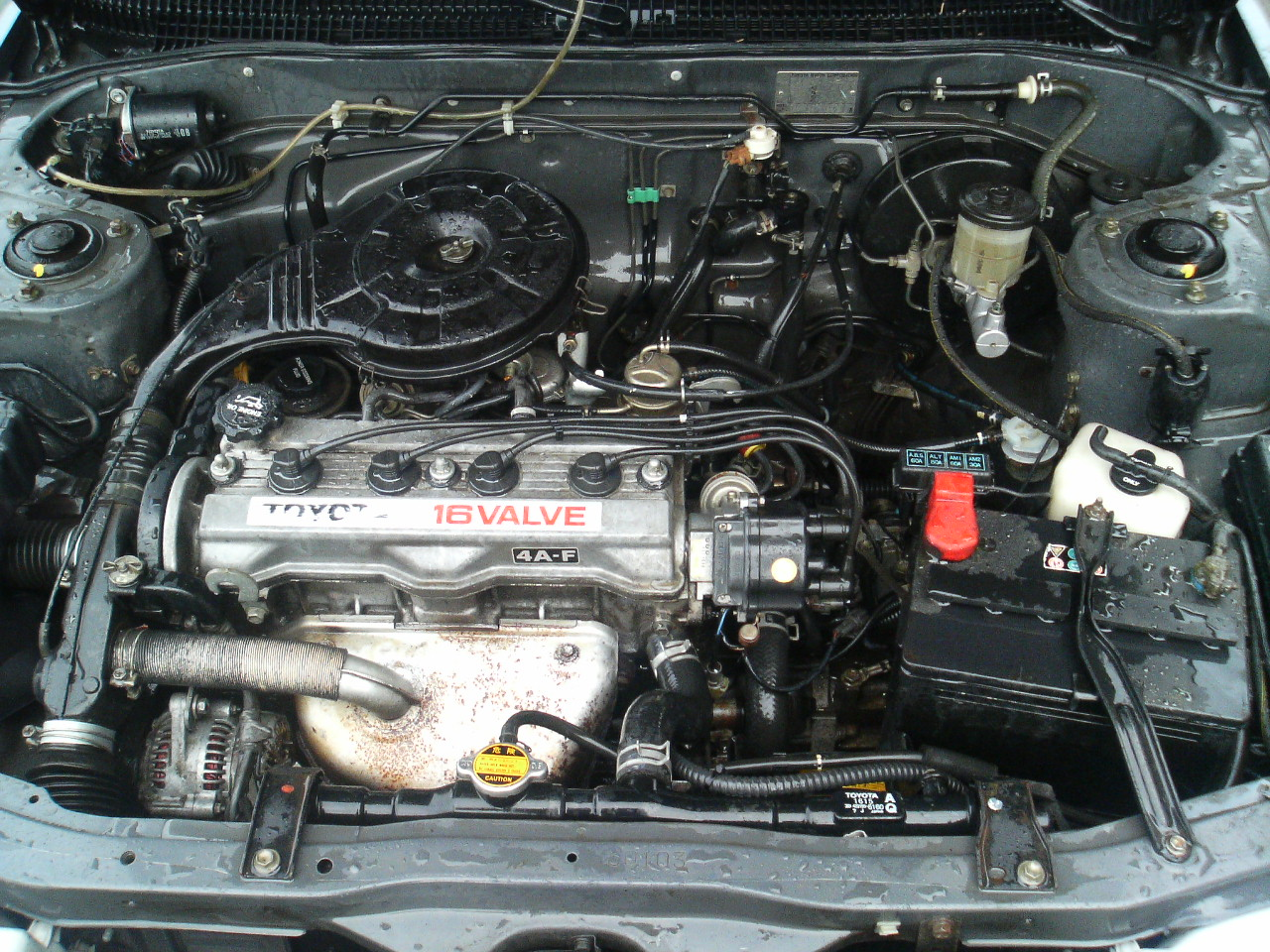 4A-F engine in AT171 Toyota Carina II.